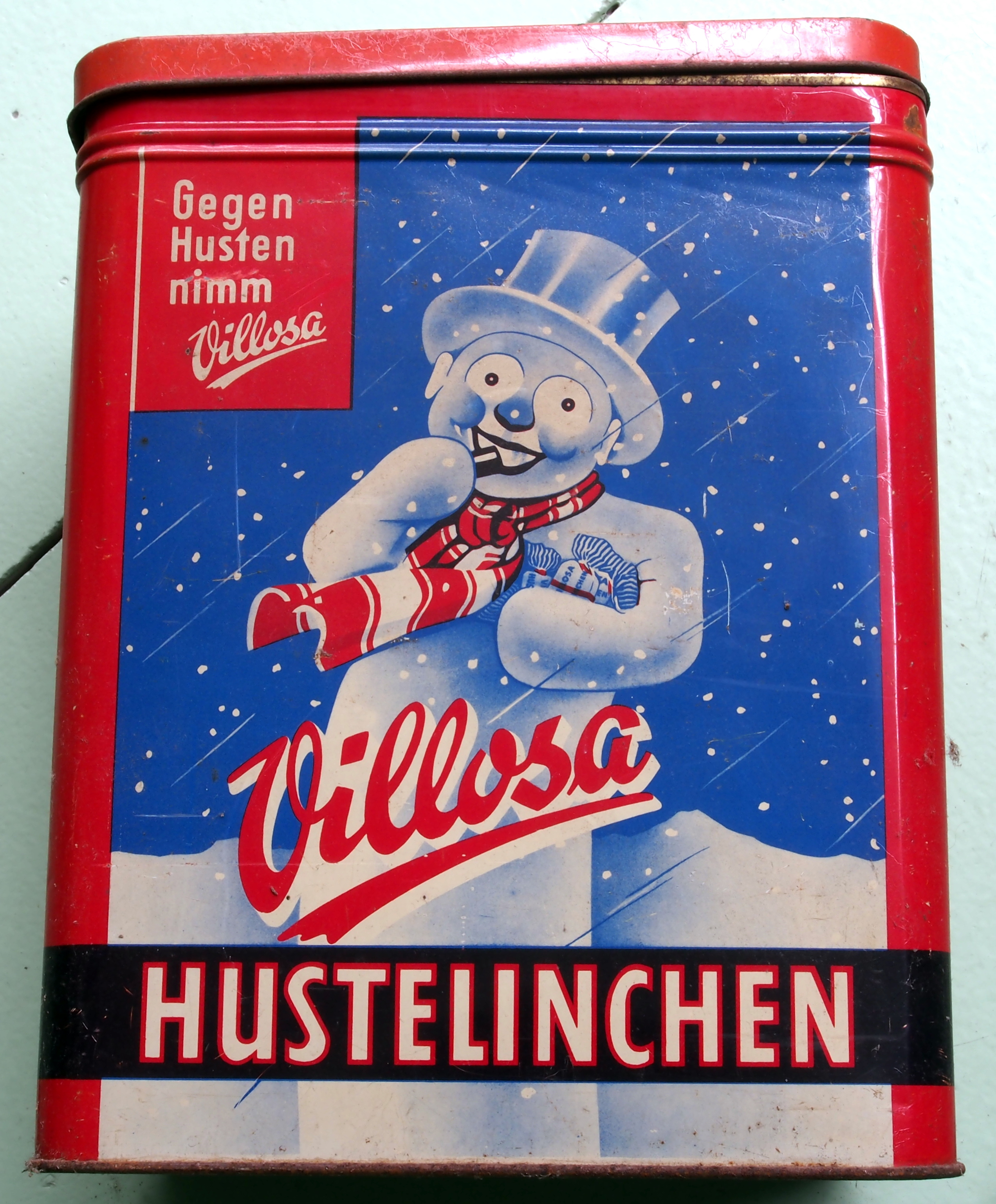 Very old product that was produced a long time ago and/or the company does not exist anymore! The company Vilosa and the brand Hustelinchen belong to Katjes since 2000. Vilosa Hustelinchen.